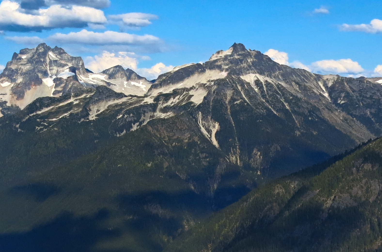 Bear Mountain from Copper Ridge with Mount Redoubt to left. North Cascades National Park